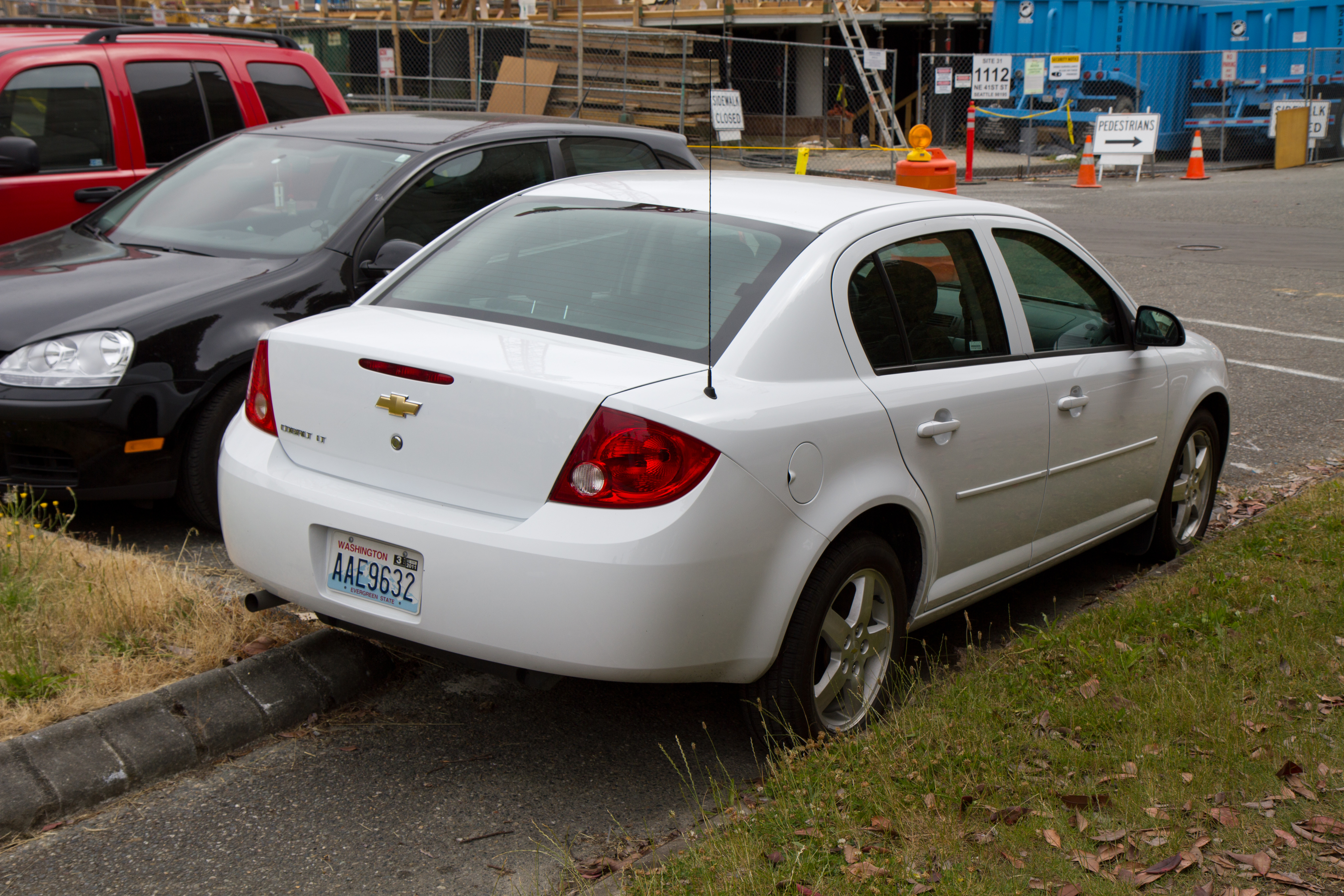 2010 Chevy Cobalt Back